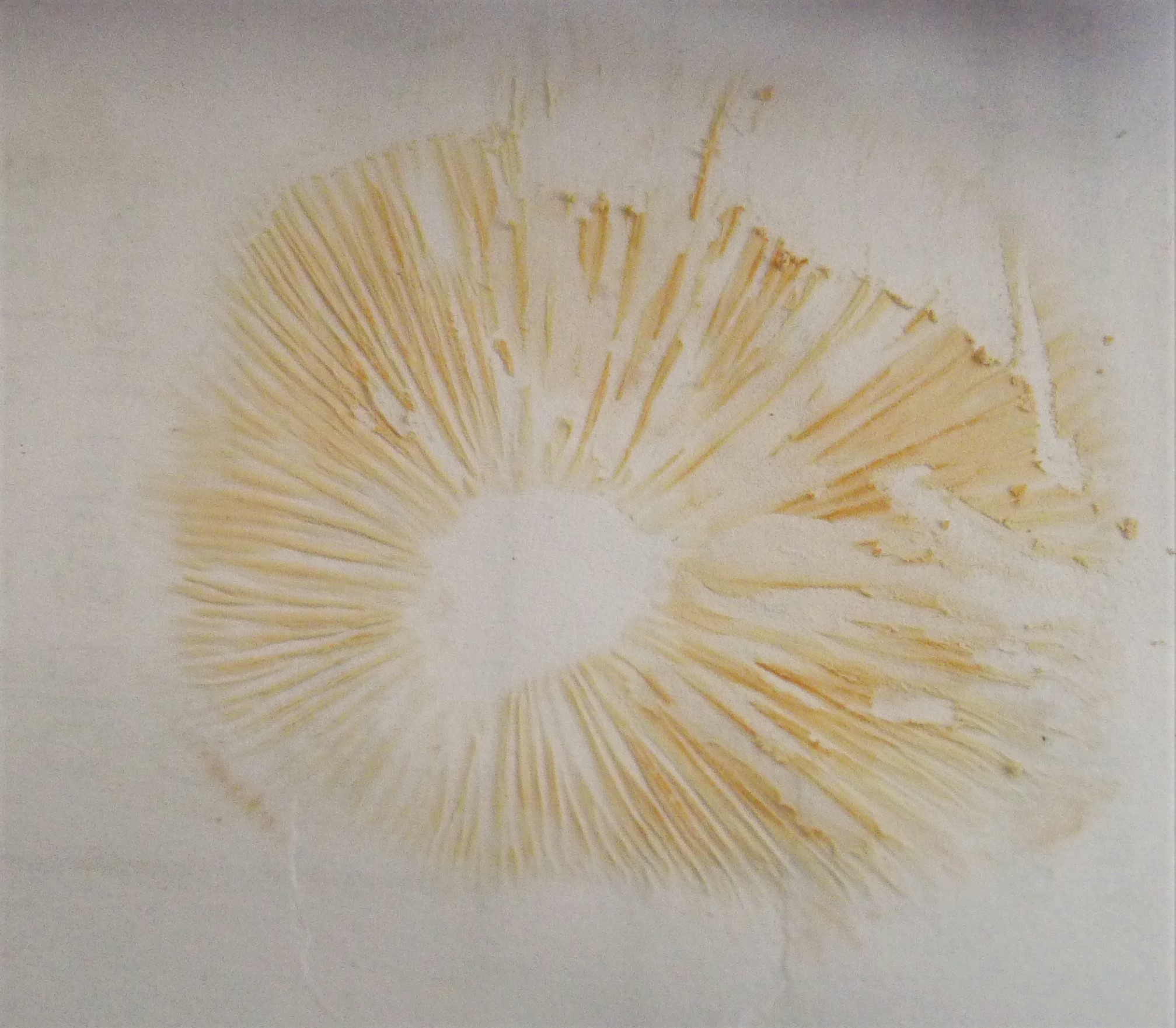 Braceland Woods, Forest of Dean Glos. SO559131